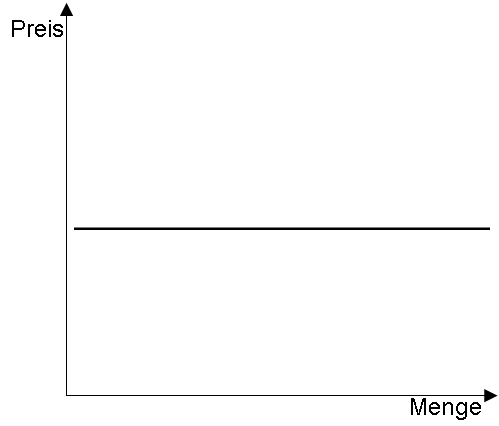 Microeconomic demand function in case of an atomistic market